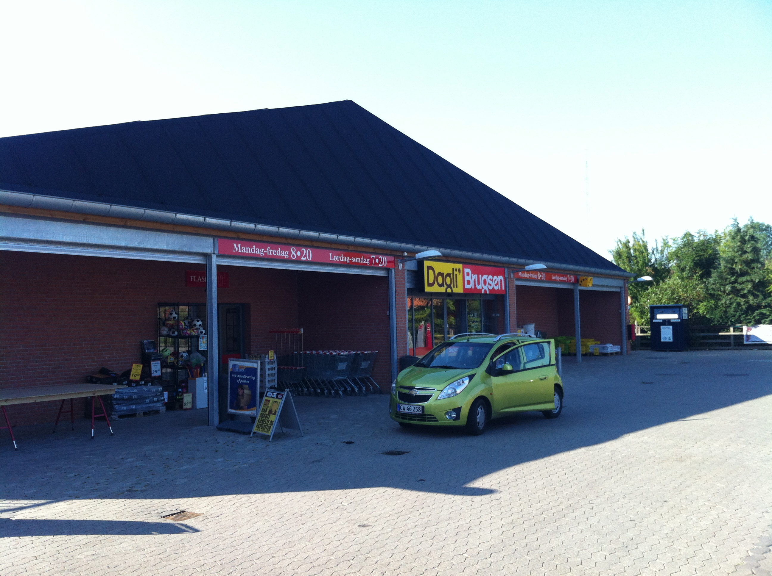 Coop store in Guldborg